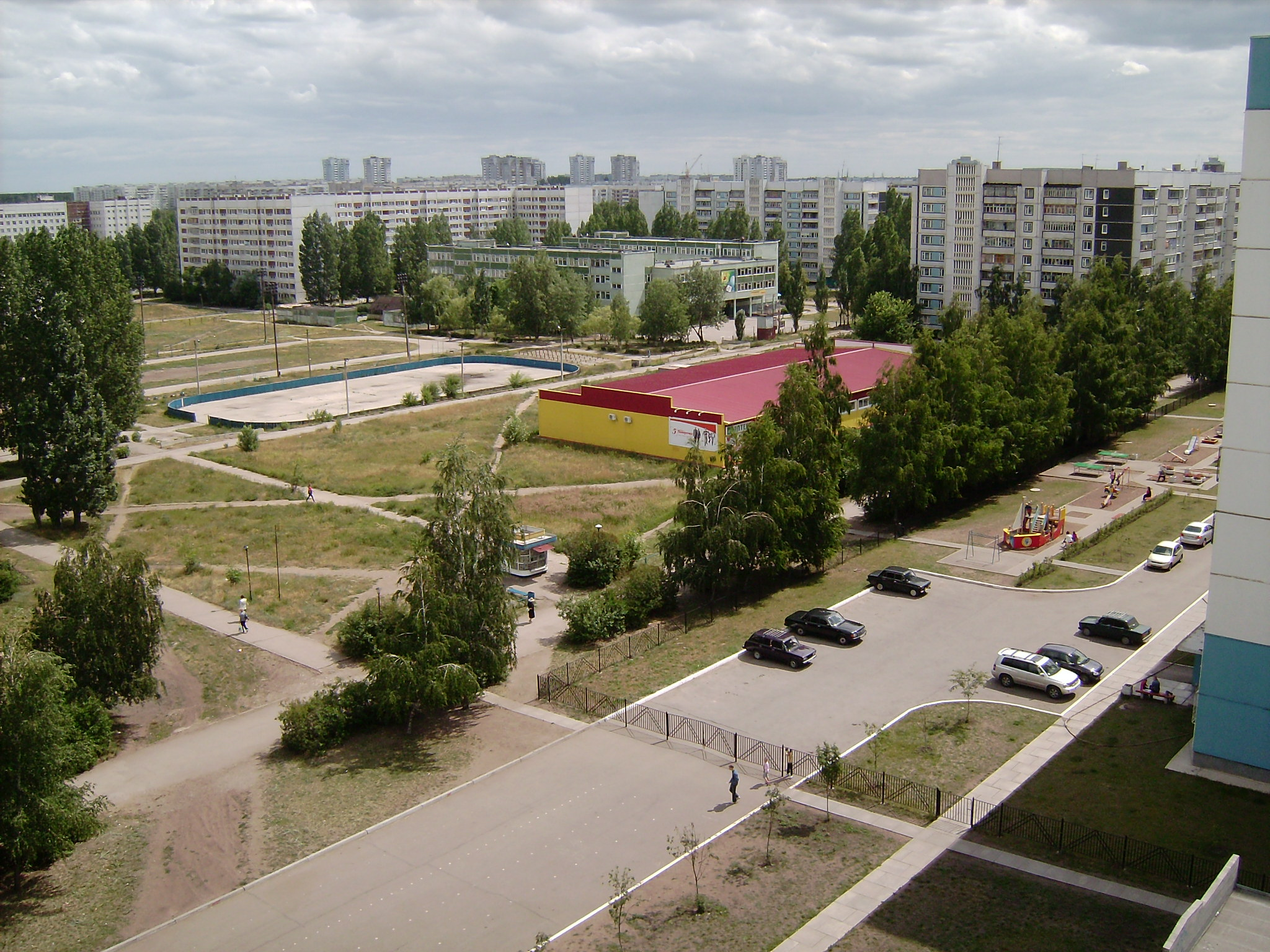 Ulyanovsk Novyi Gorod (New City) area